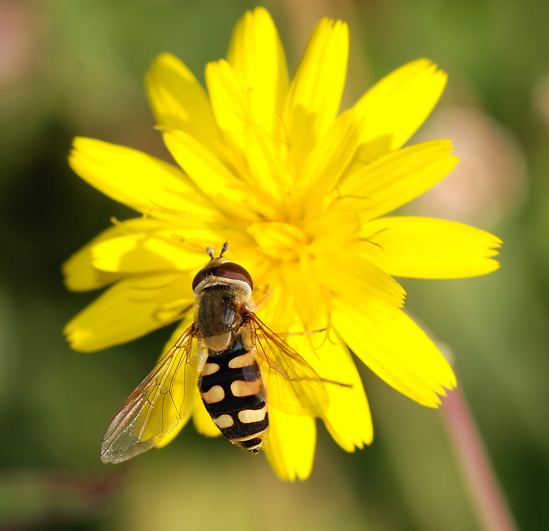 Hoverfly (Eupeodes corollae)